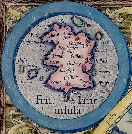 The imaginary island of Frisland on Mercator's arctic map